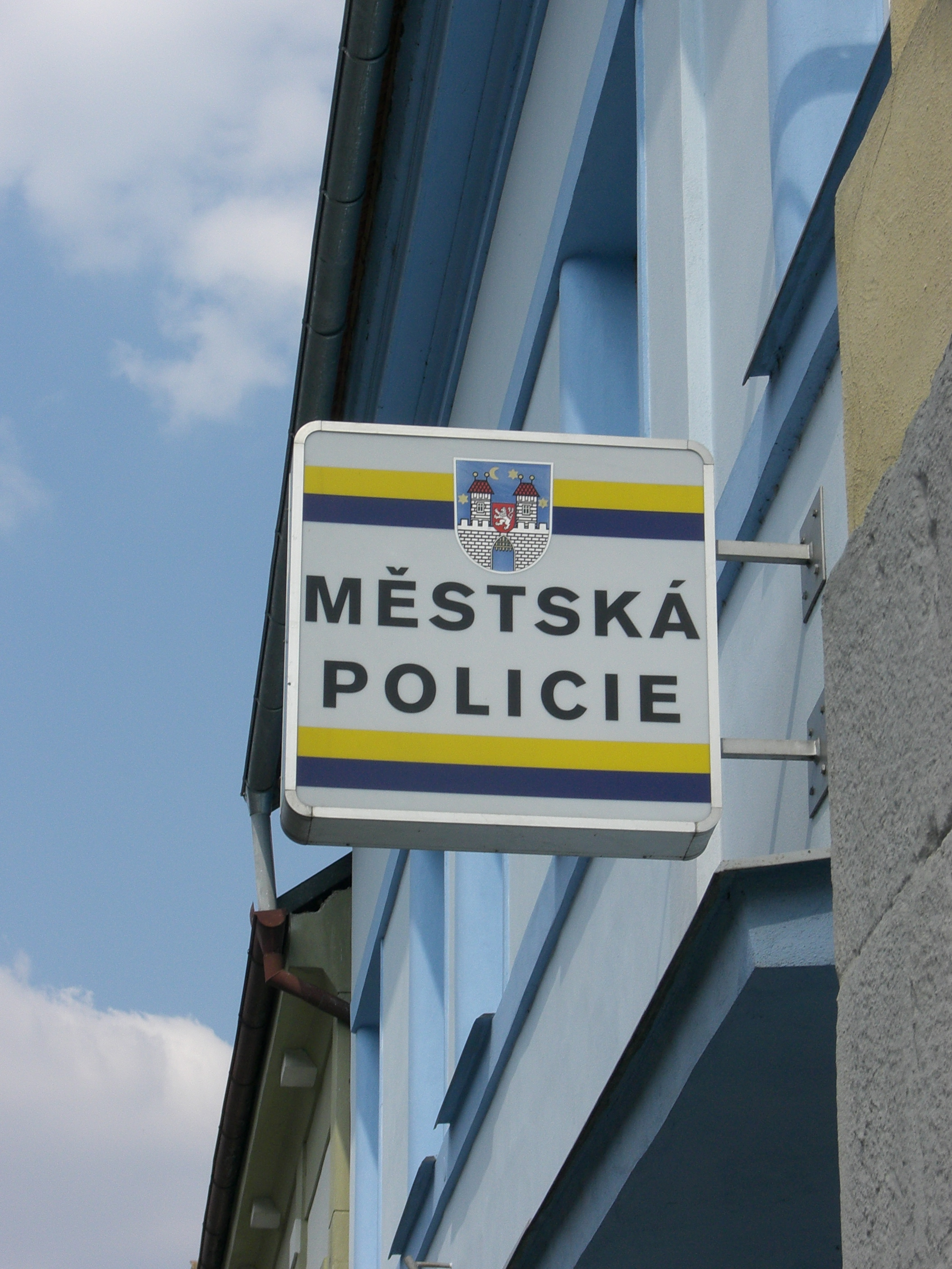 Mark of City Police in Písek